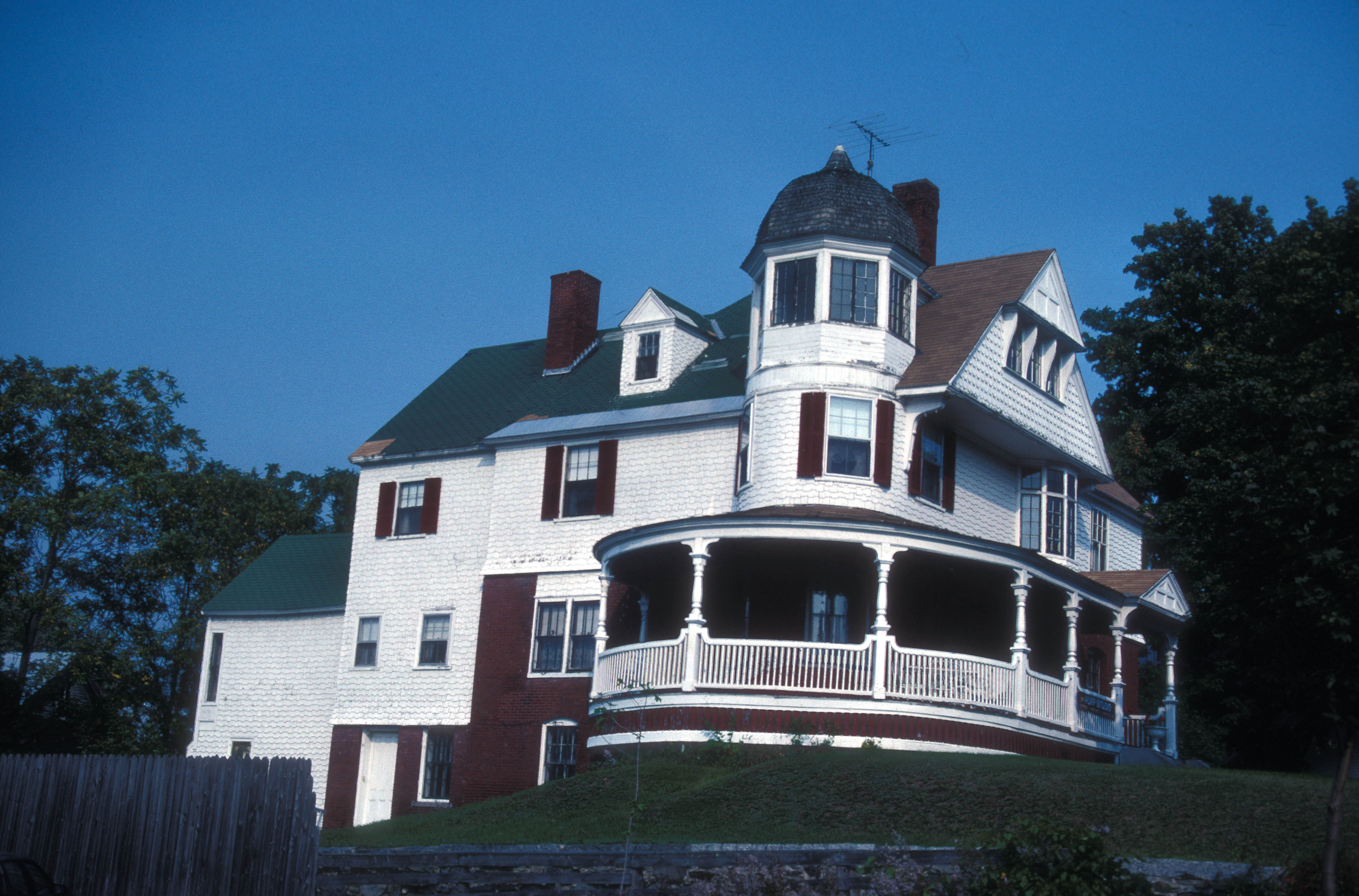 1887 QUEEN ANNE STYLE